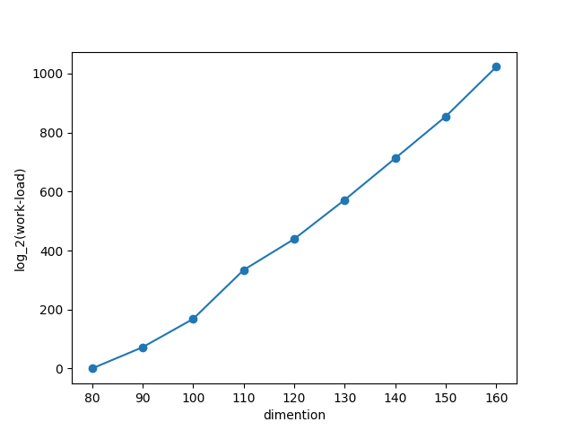 Оценка атаки округлением на схему шифрования ggh